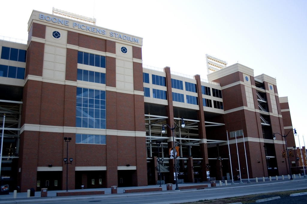 Outside of Boone Pickens Stadium at Oklahoma State University